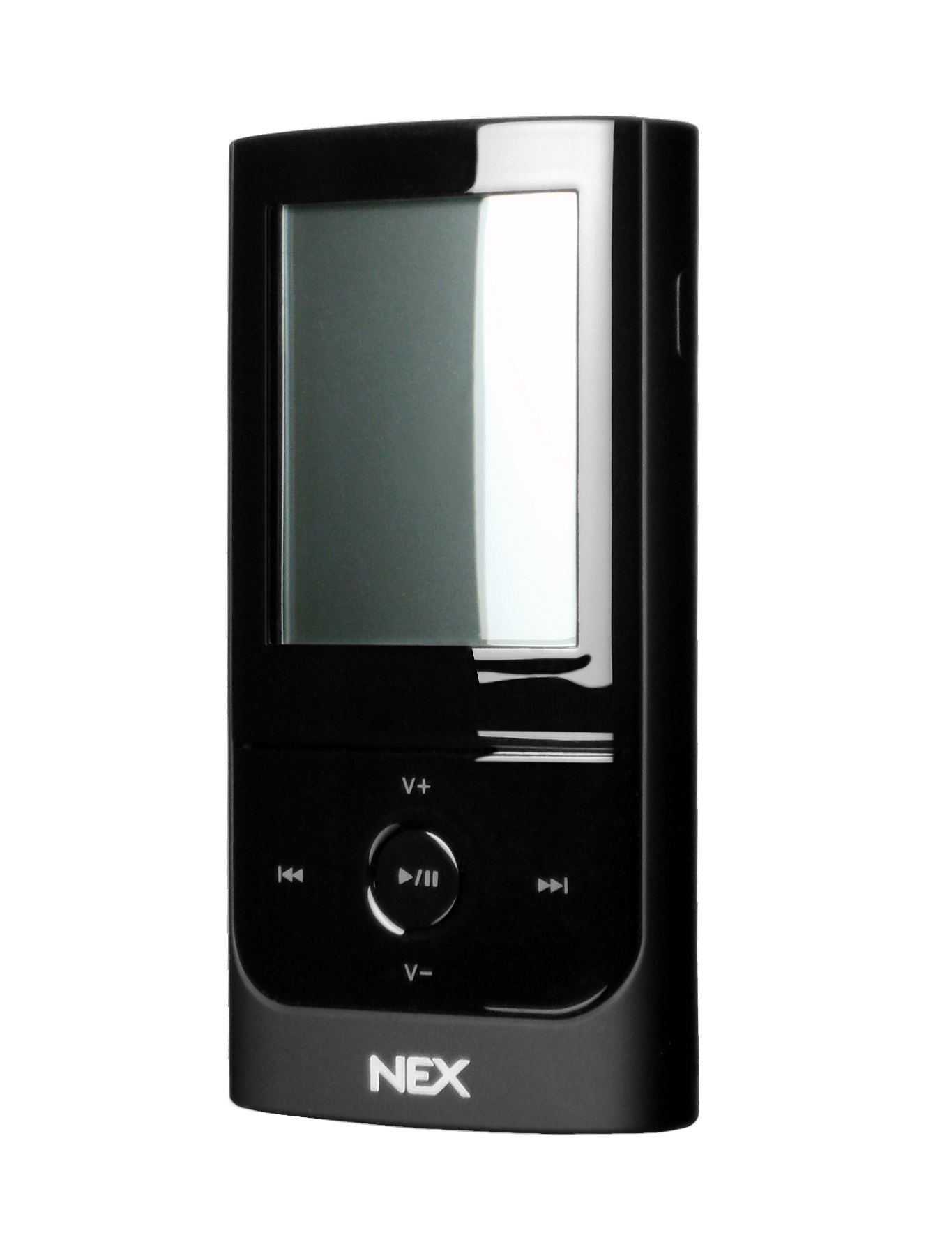 A mp4 player.